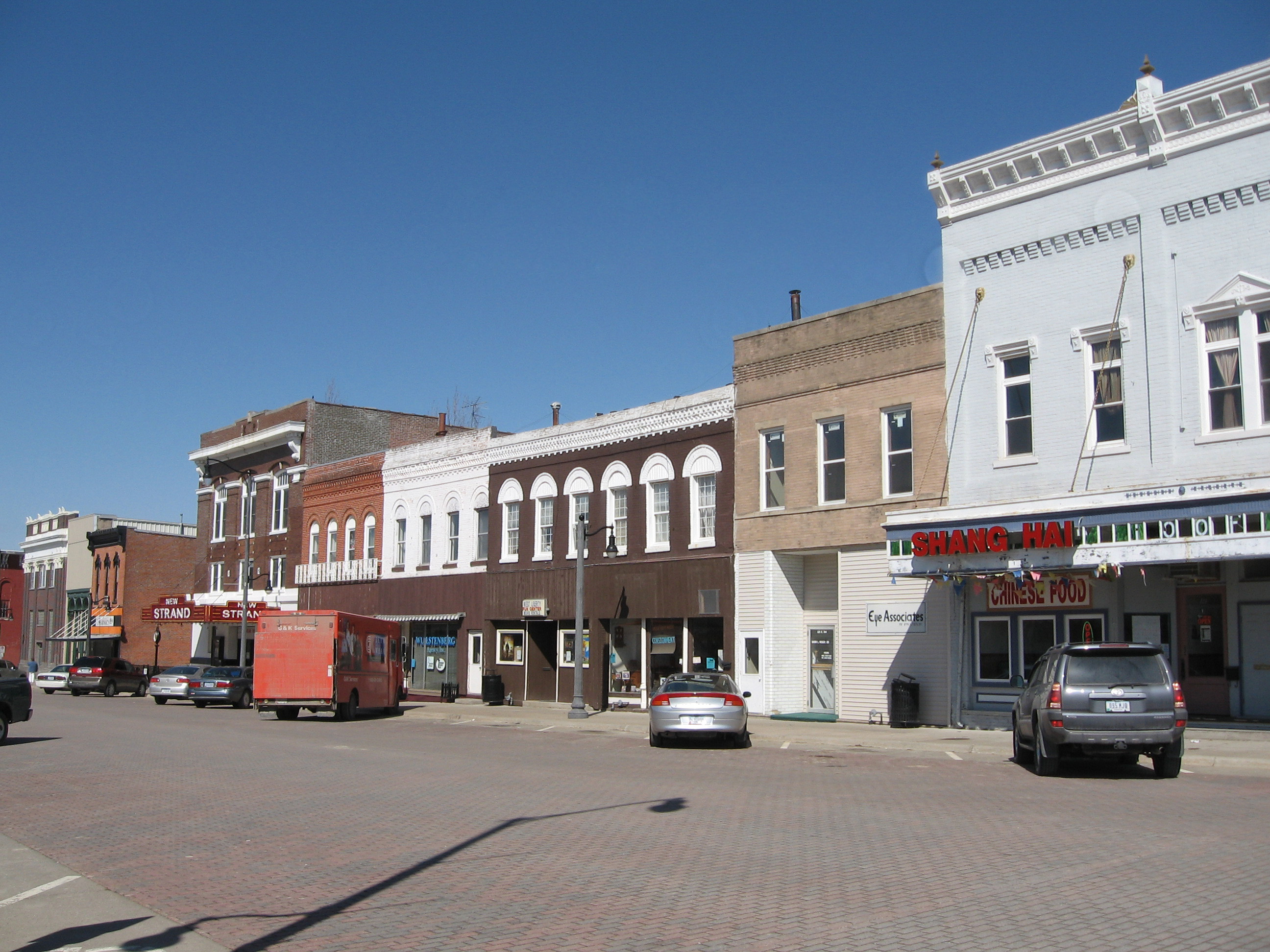 West Liberty, Iowa, including much of the NRHP-listed West Liberty Commercial Historic District.